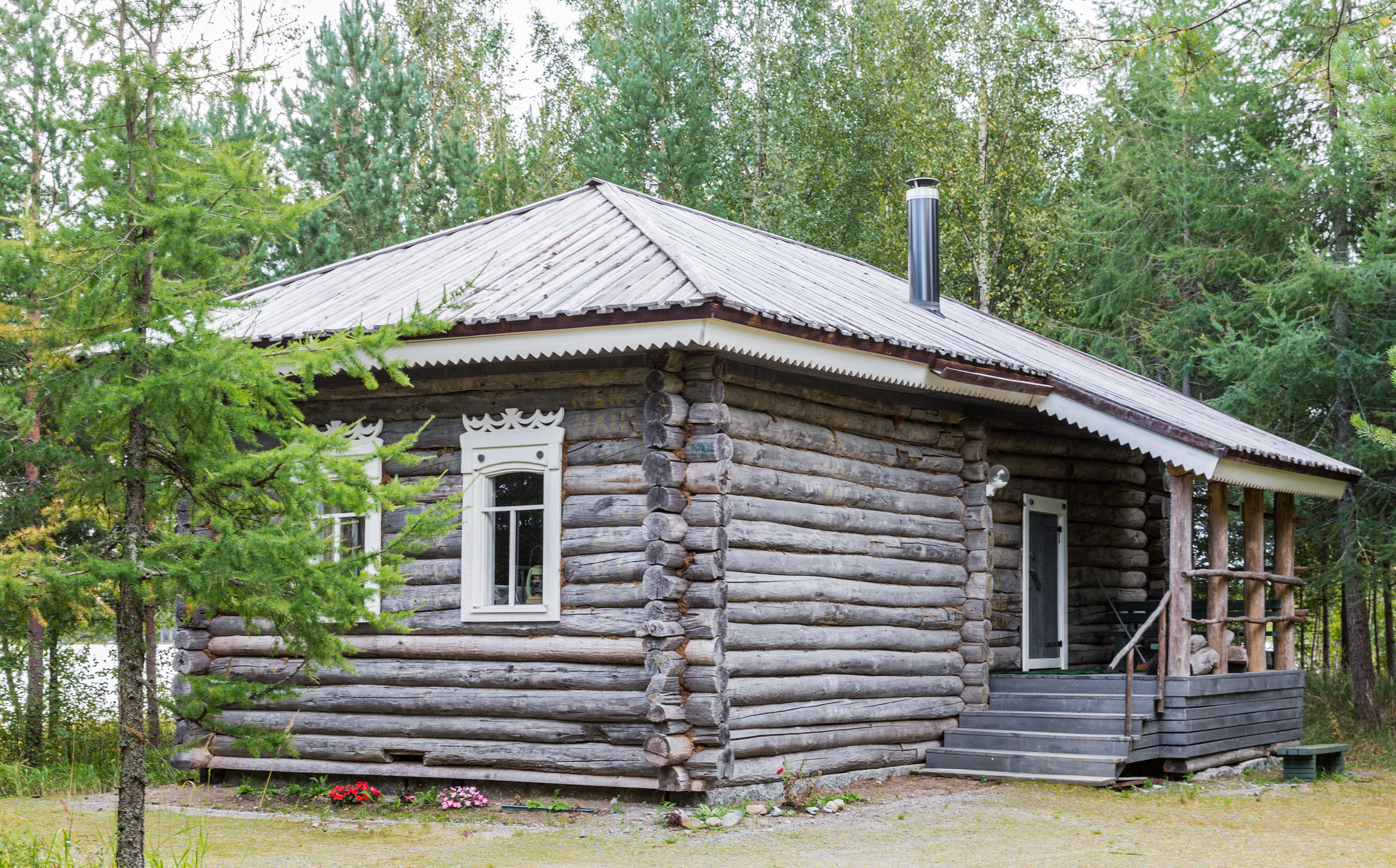 Matti Unkuri's house from Siberia